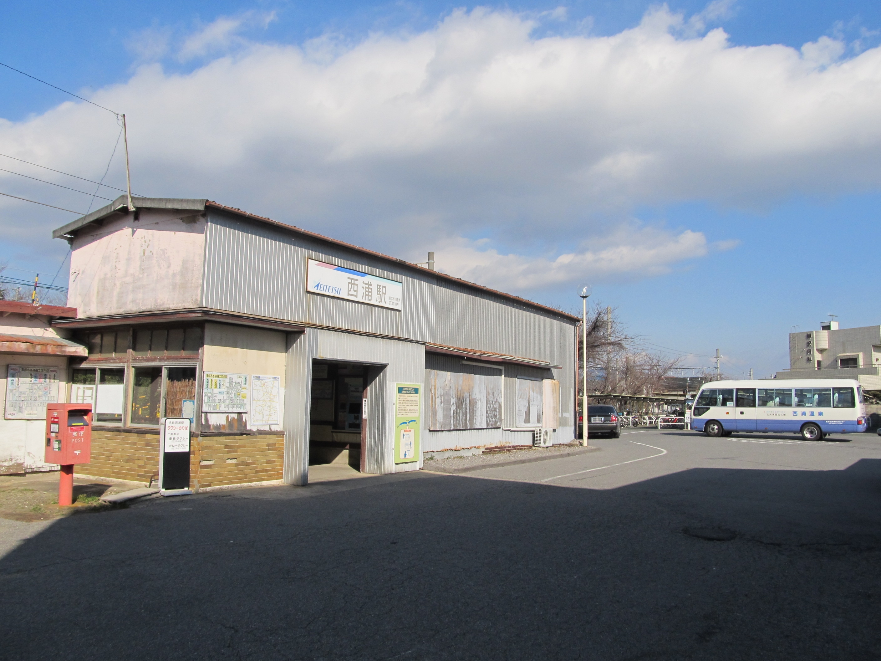 Nagoya Railroad Gamagōri Line Nishiura Station Building